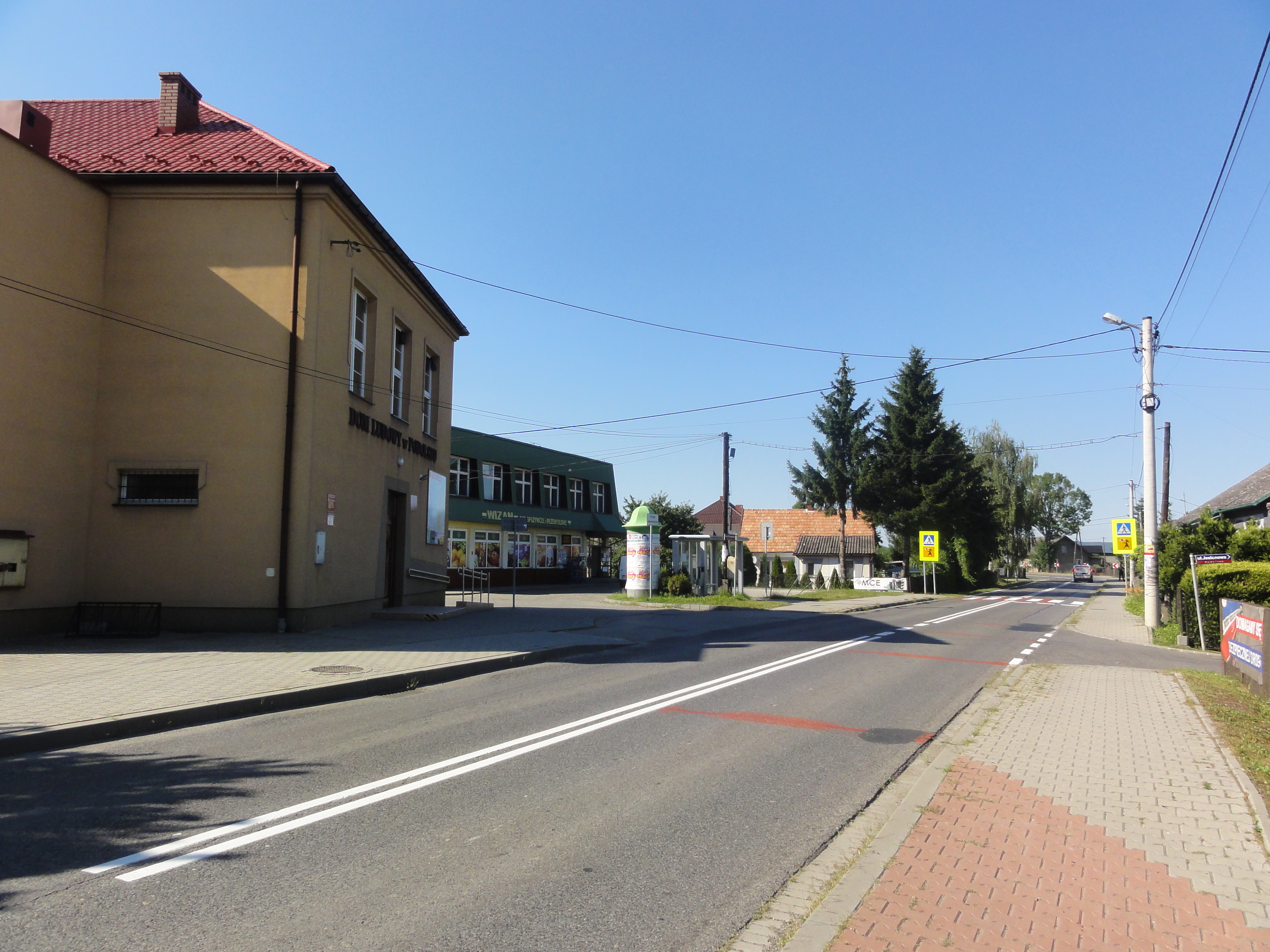 Podolsze